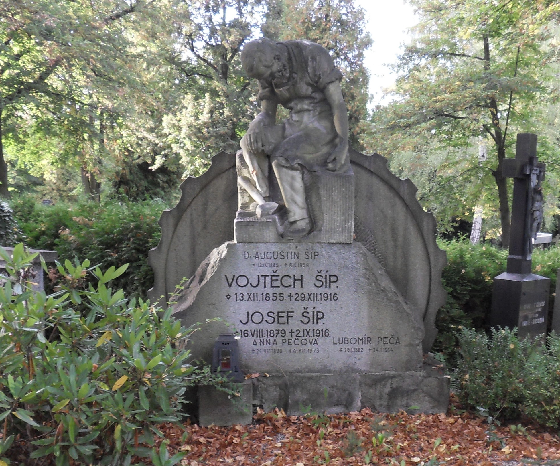 Grave of czech politician Augustin Šíp at the Central Cemetery in Pilsen, Czech Republic